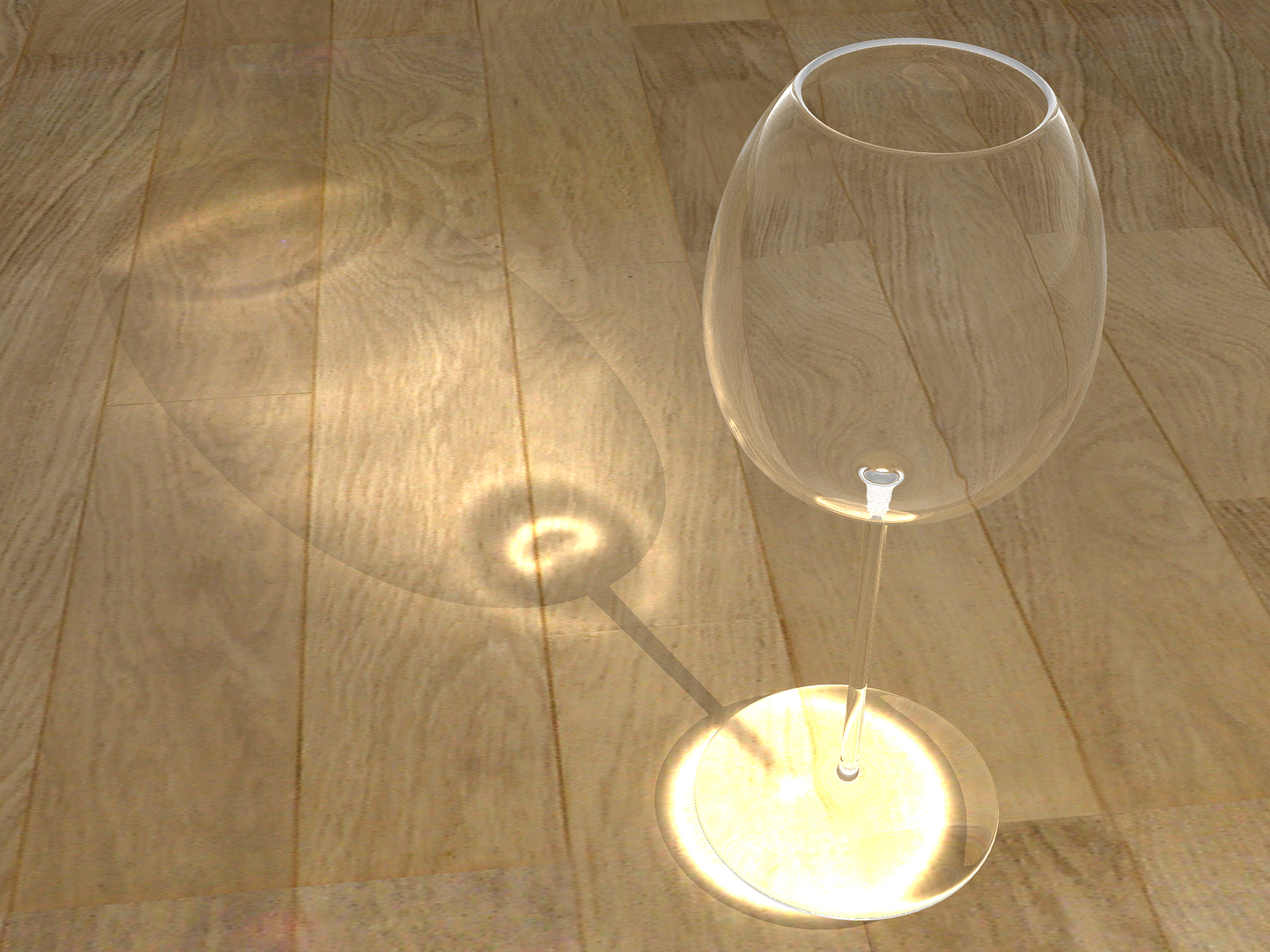 A glas out of a NURBS surface. In this image strip the energy of the emitted caustics photons changed. In this image the energy was at 6000. Rendered with mental ray (caustics, raytraceing).